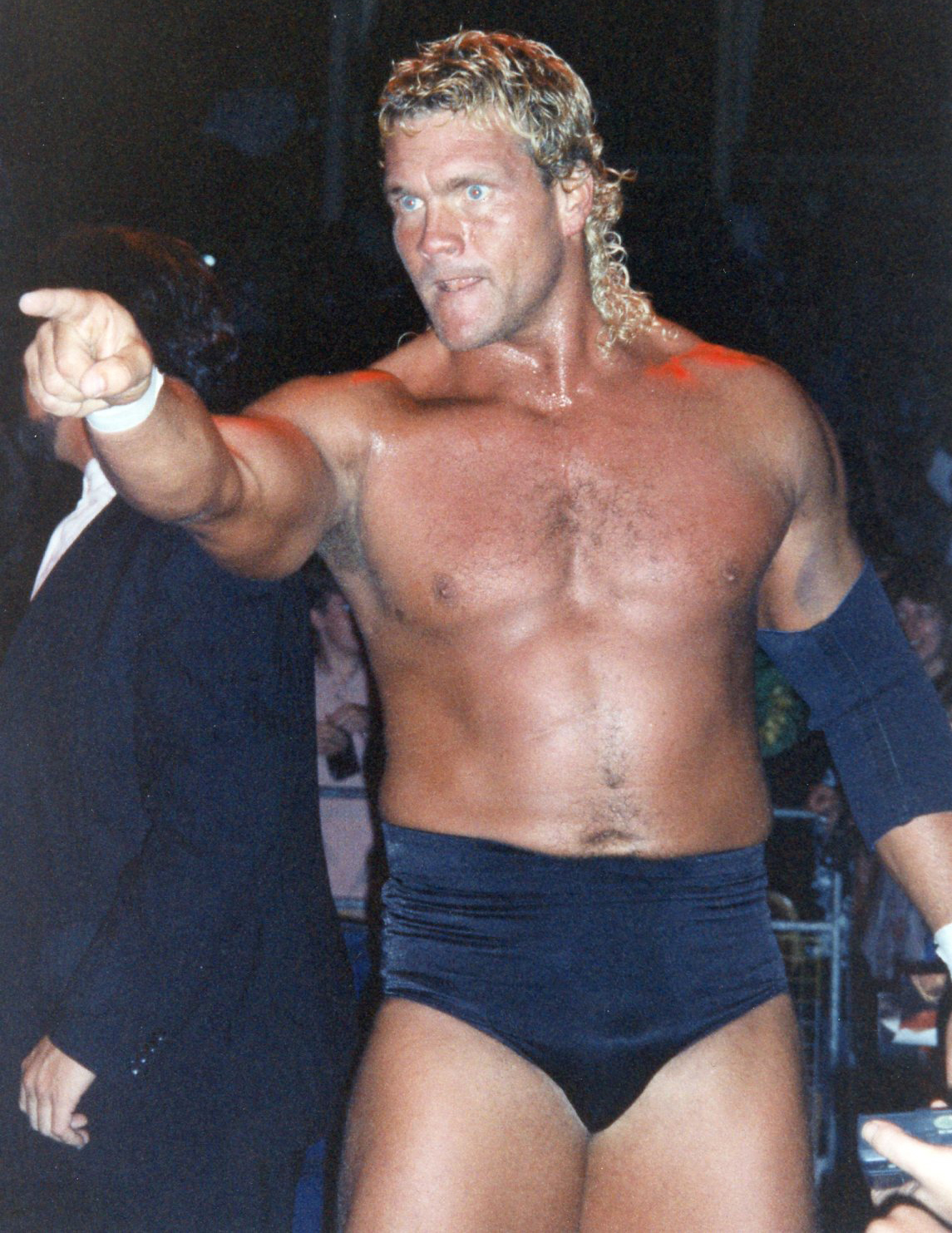 Sid Vicious threatens his opponent as a member of Ted DiBiase's Million Dollar Corporation. Taken at the Royal Albert Hall in London, England, October 4, 1995.